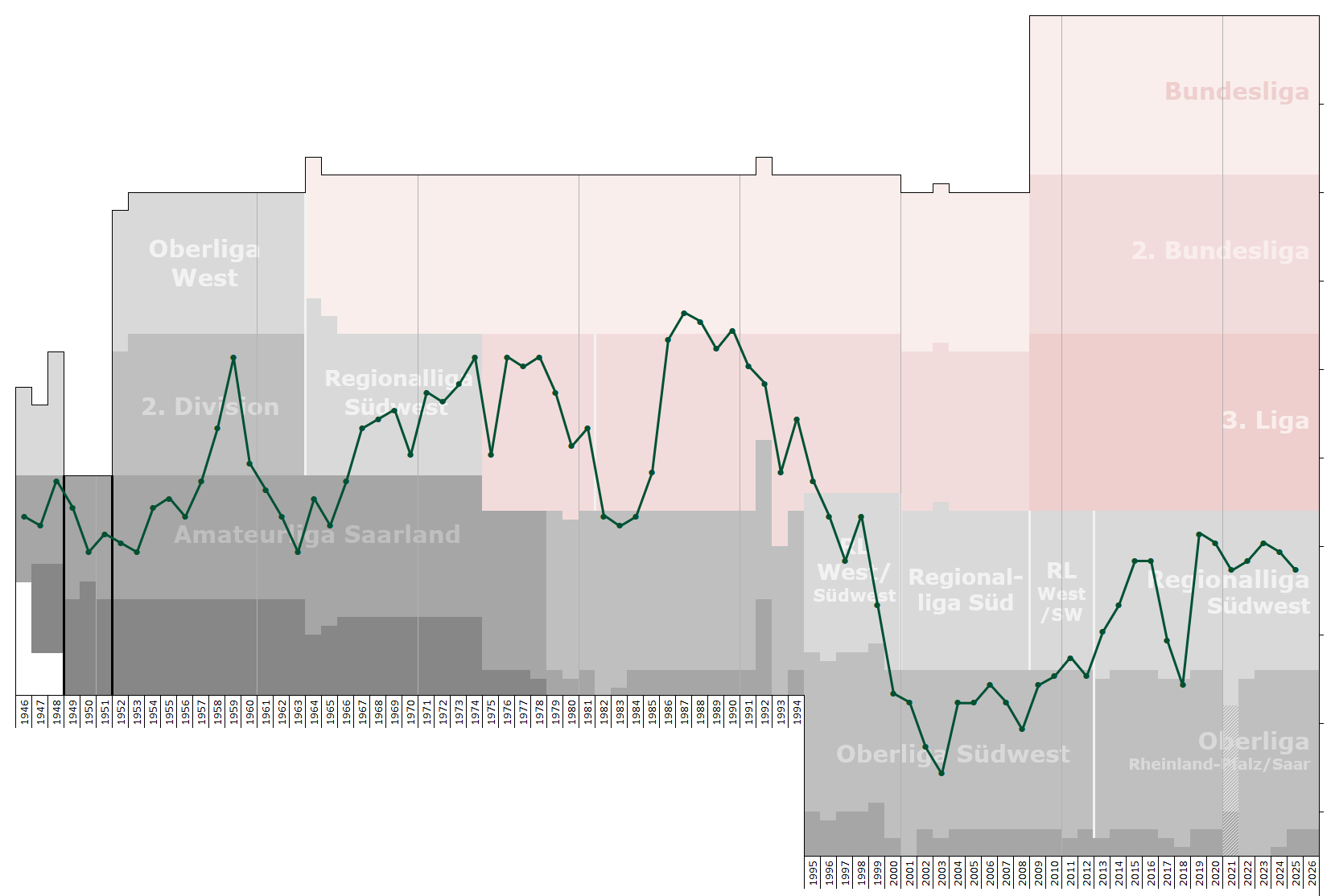 Chart of end-season table positions of FC Homburg in the football league system of Germany. Data source: RSSSF, wikipedia, f-archiv.de, fussball.de